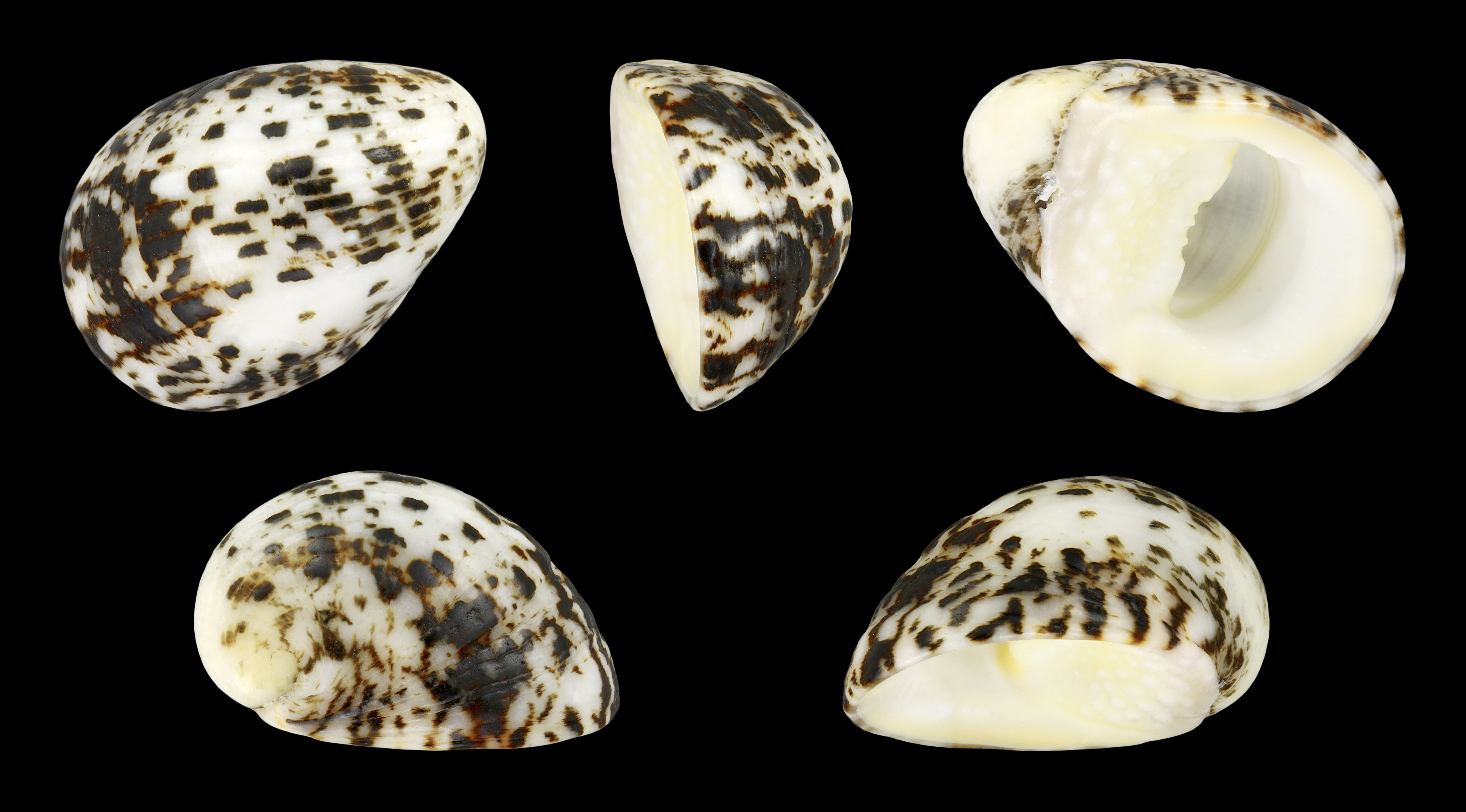 Blotched Nerite; Length 2.7 cm; Originating from Japan; Shell of own collection, therefore not geocoded.